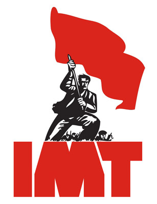 International Marxist Tendency flag.